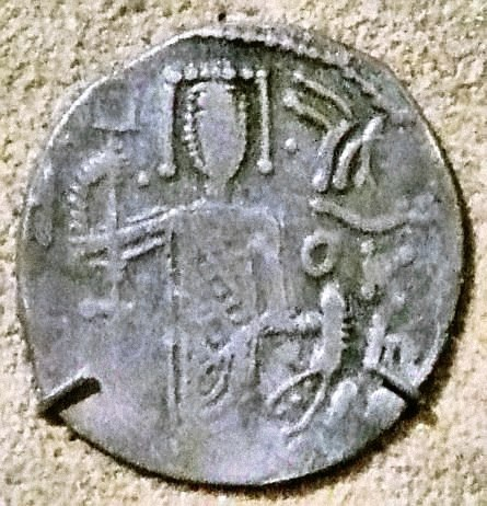 Silver Asper of Manuel I Komnenos of Trebizond, 1237-1263